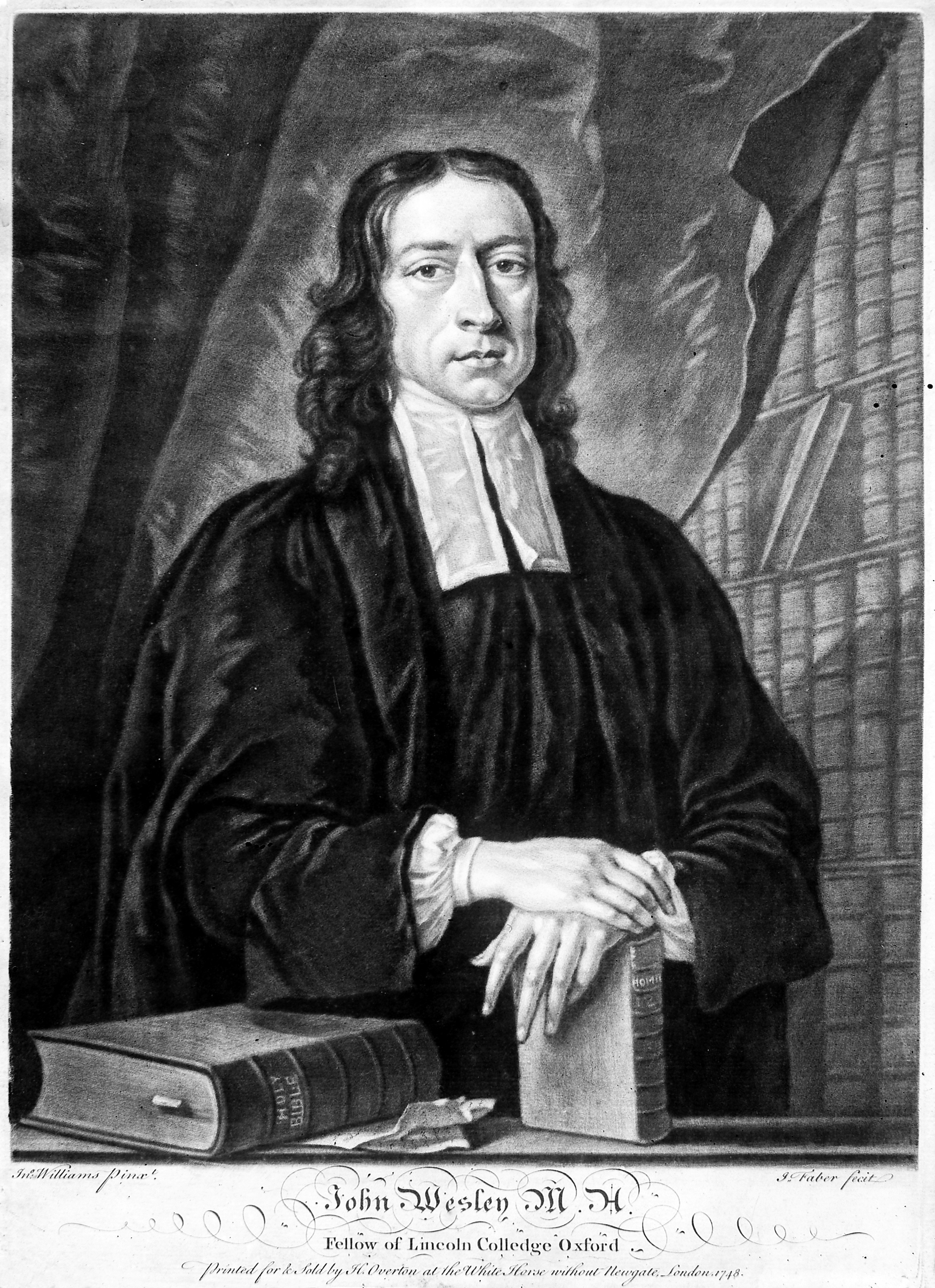 John Wesley. Mezzotint by J. Faber, junior, 1743, after J. Williams. Iconographic Collections Keywords: John Faber; John Wesley; J. Williams